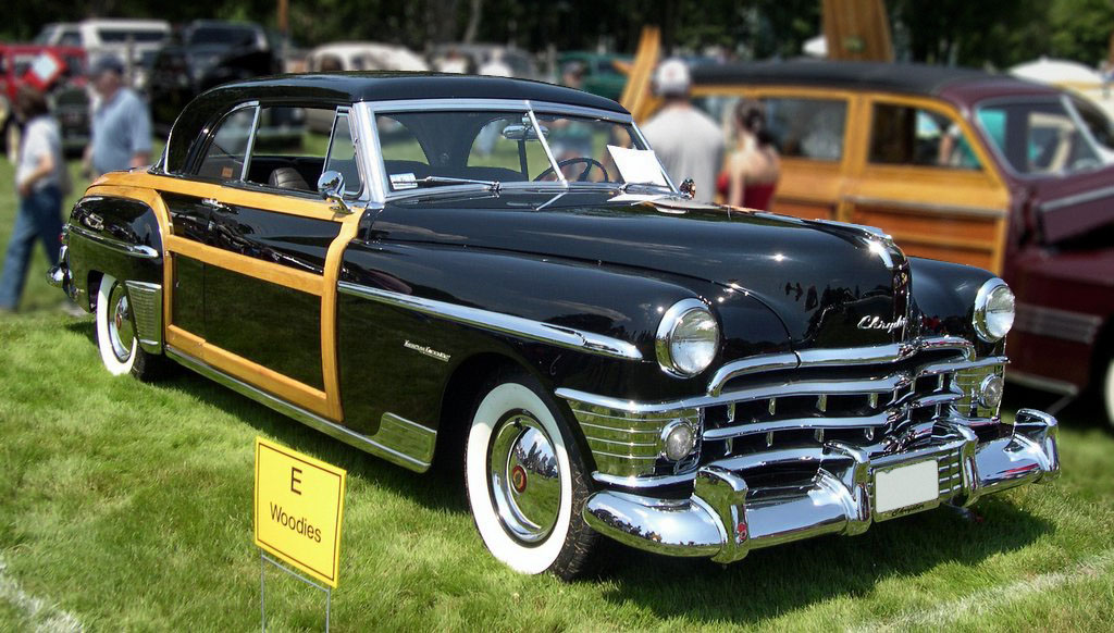 I edited the original image for use on my ad-supported automotive website (Ate Up With Motor), blurring the background to obscure background elements. This is the edited version.